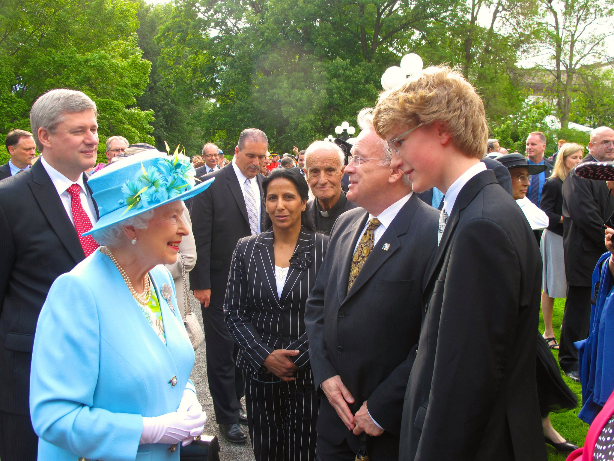 Jan Lisiecki meeting Queen Elizabeth II at his performance on Canada Day 2011 in Ottawa